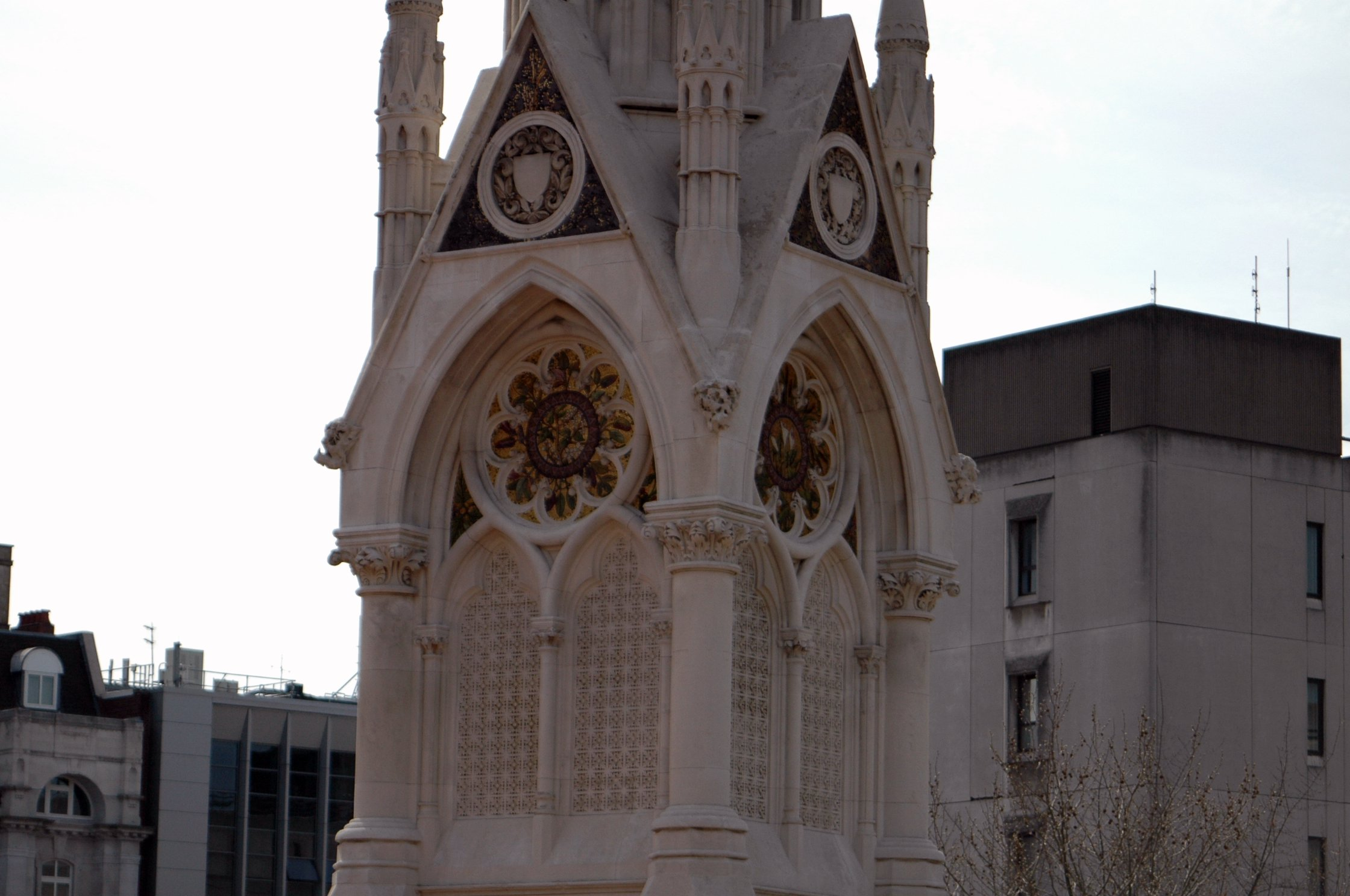 A close up of the detailing on the Chamberlain Memorial — in Chamberlain Square, Birmingham, England.